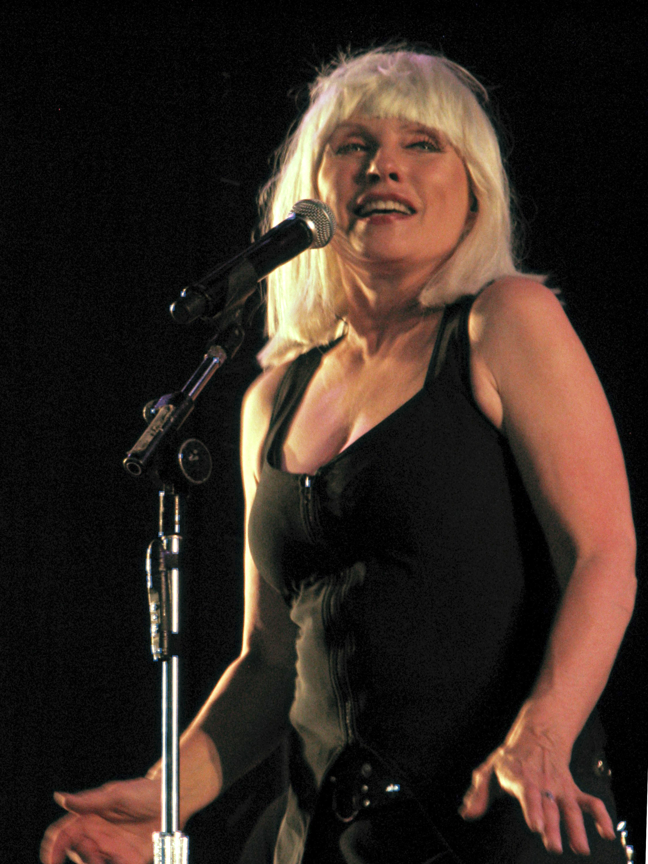 Debbie Harry performing with Blondie at the Zwarte Cross festival on Friday July 15th 2011 in Lichtenvoorde the Netherlands